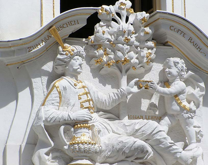 Leipzig, coffee house "Zum Arabischen Coffe Baum", detail above the door. It shows a boy passing on a cup of coffee to a man who's sitting in front of a coffee tree, dressed in Turkish-style clothings.